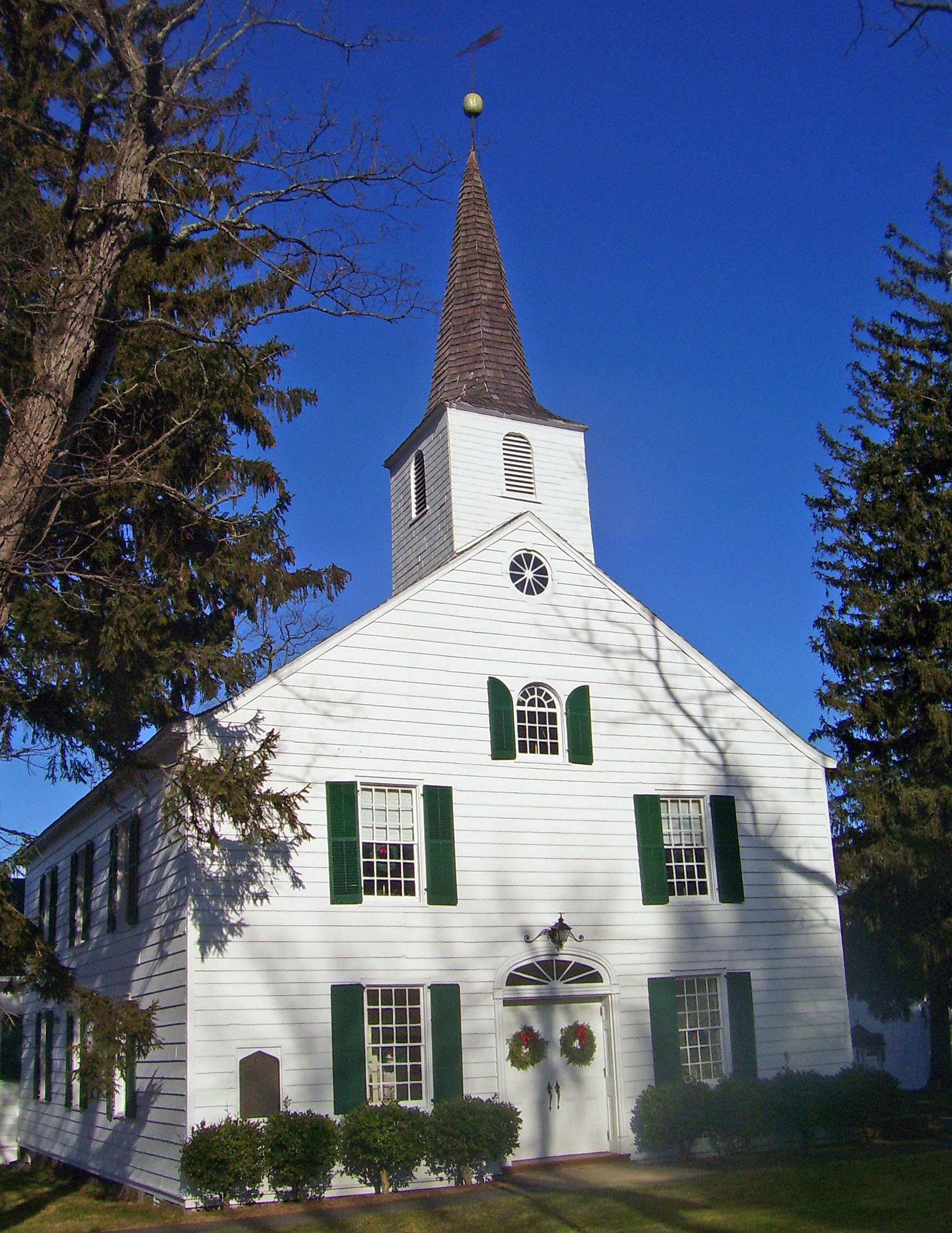 New Hempstead Presbyterian Church, near New City, NY, USA. Listed on the National Register of Historic Places as English Church and Schoolhouse